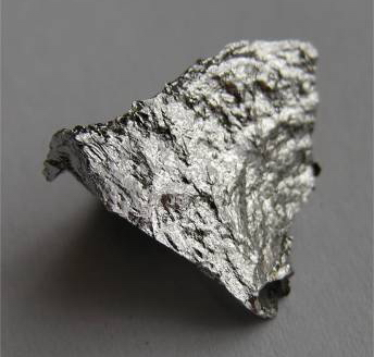 Manganese